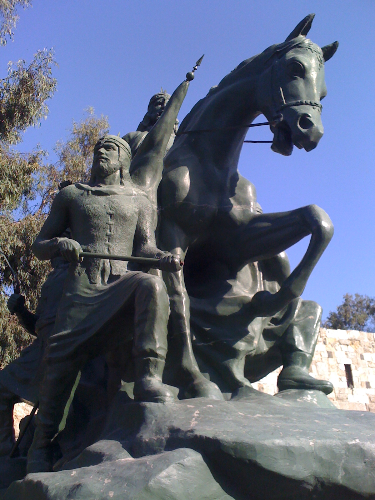 Saladin's statue